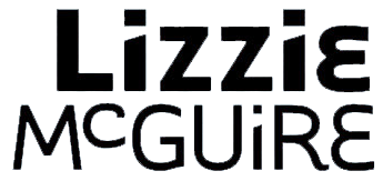 Logo for the TV series Lizzie McGuire.